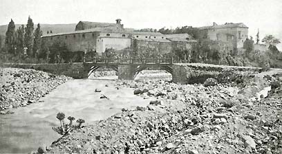 Castello di Maniace, near Bronte, Sicily, photographed in 1885. Seat of the heirs of Admiral Horatio Nelson, 1st Duke of Bronte. The feudal tax of pontage was exercised by the dukes over this former ancient bridge over the River Saraceno until modern times (one of many sources of friction with the local inhabitants)